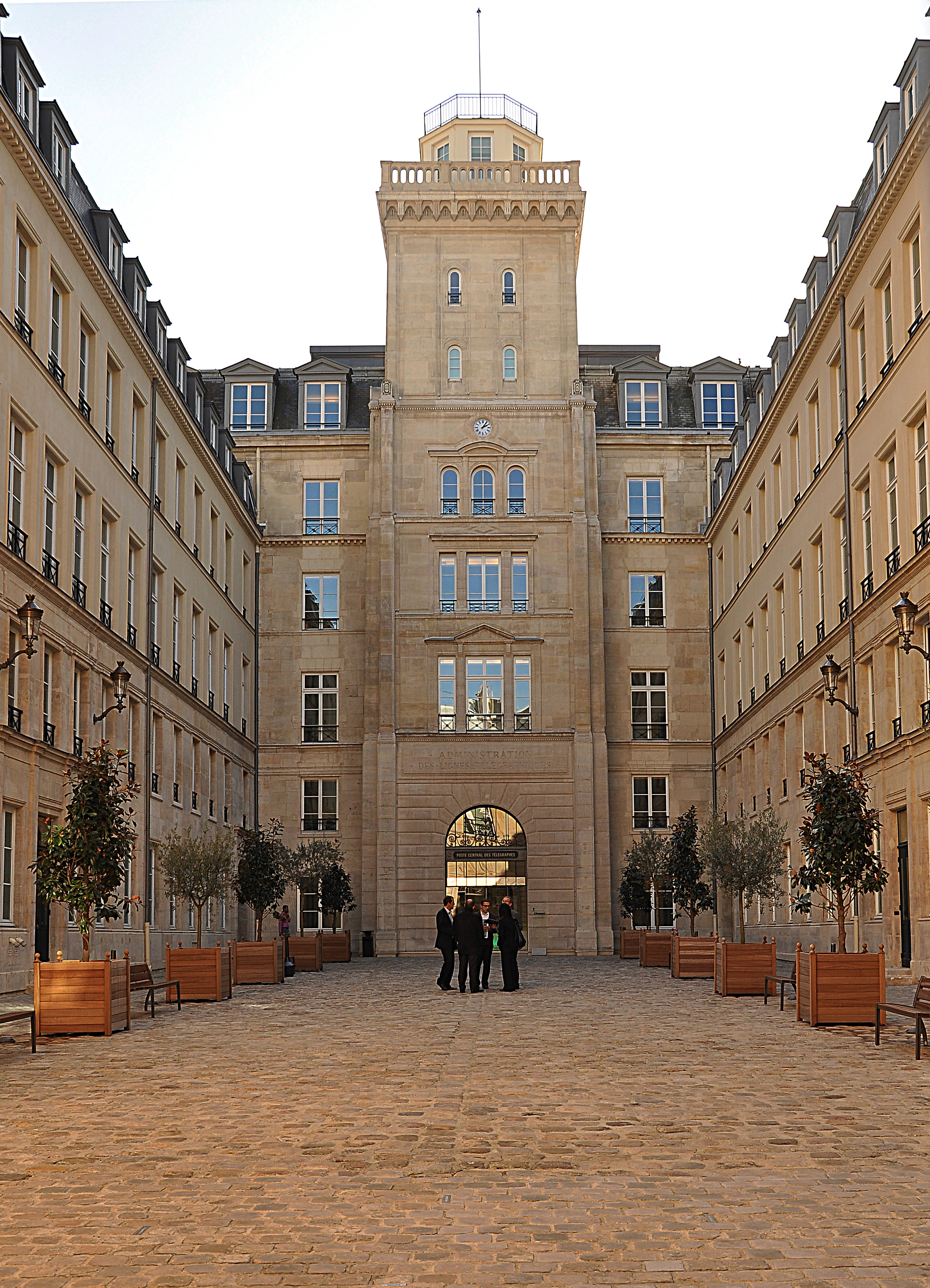 Chappe's optical telegraph tower at 103 rue de Grenelle in the 7th district of Paris, France.